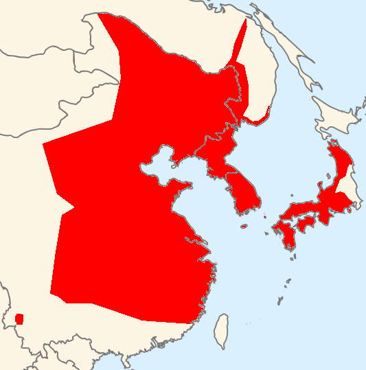 Pelophylax nigromaculatus distribution map